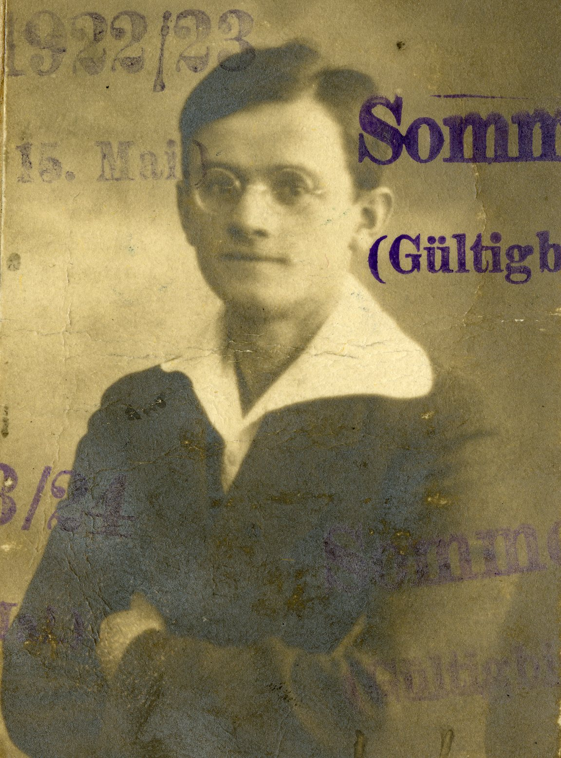 Hermann Gumbel